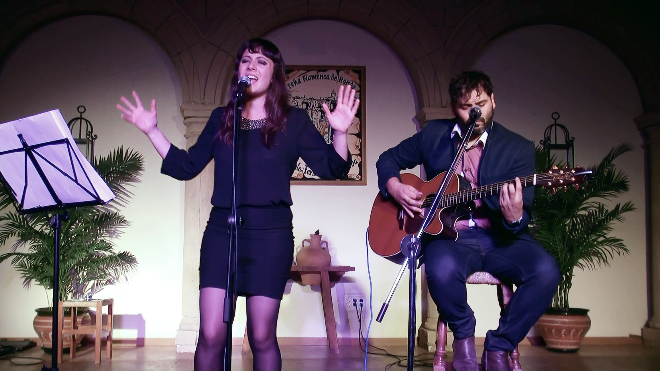 María Villalón